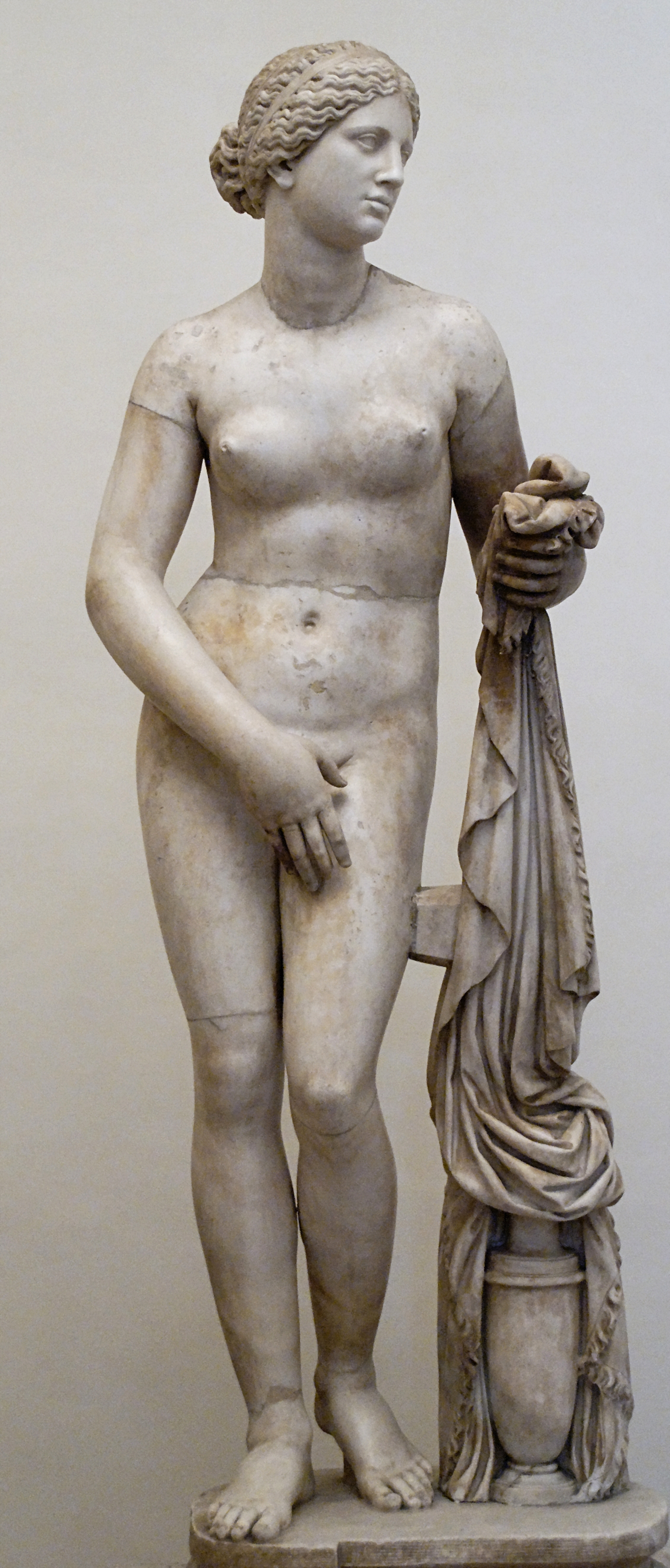 Cnidus Aphrodite. Marble, Roman copy after a Greek original of the 4th century. Marble; original elements: torso and thighs; restored elements: head, arms, legs and support (drapery and jug).